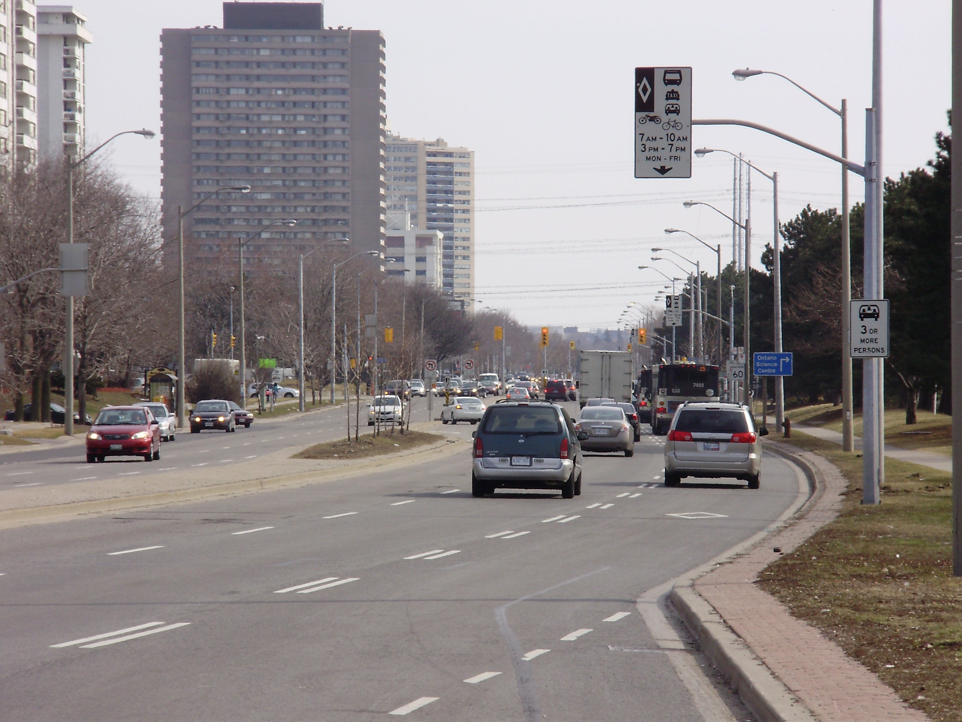 Looking south along Don Mills Road in Toronto, Ontario, Canada, from its intersection with Eglinton Avenue West.